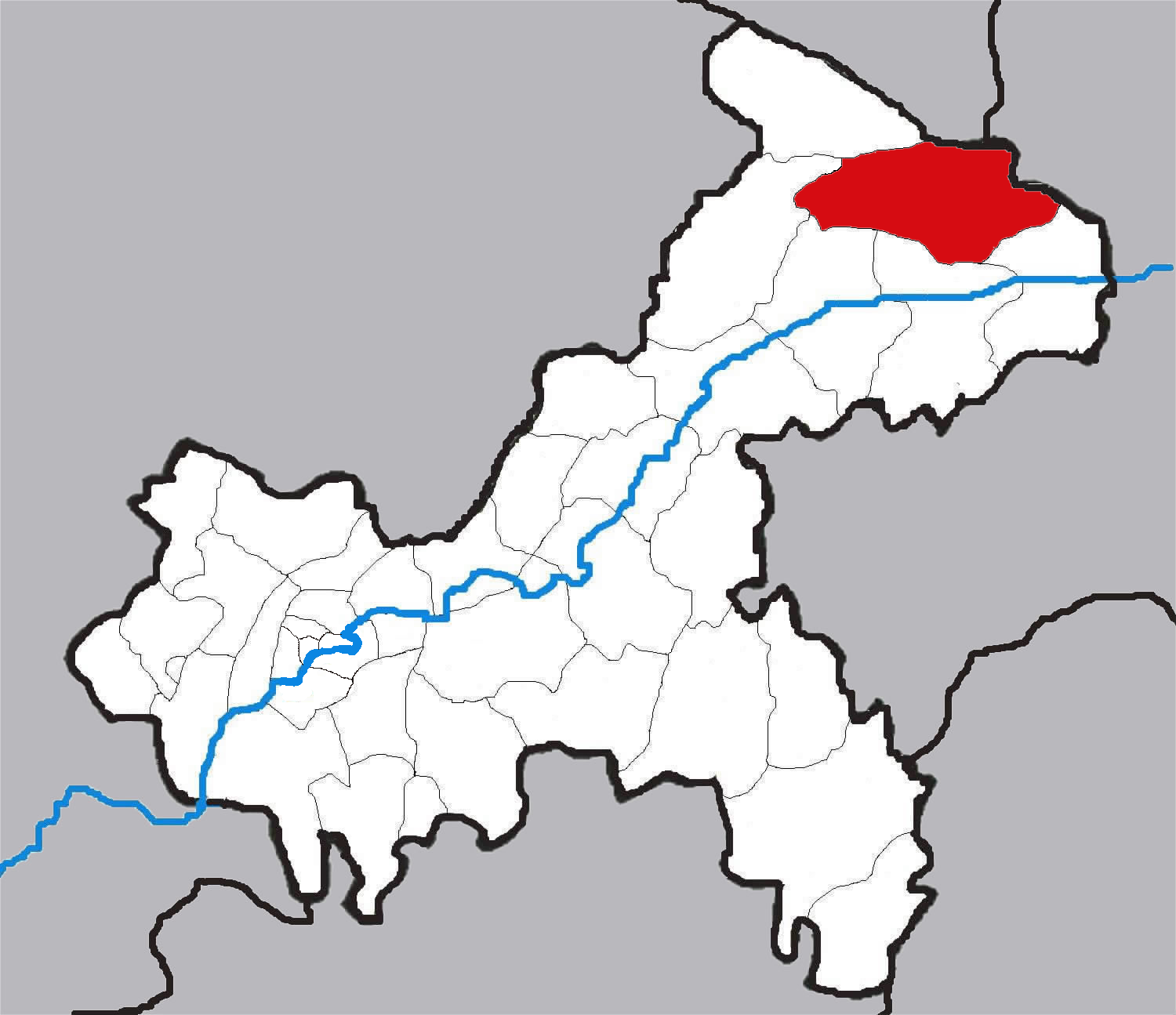 Administration maps of Chongqing, China